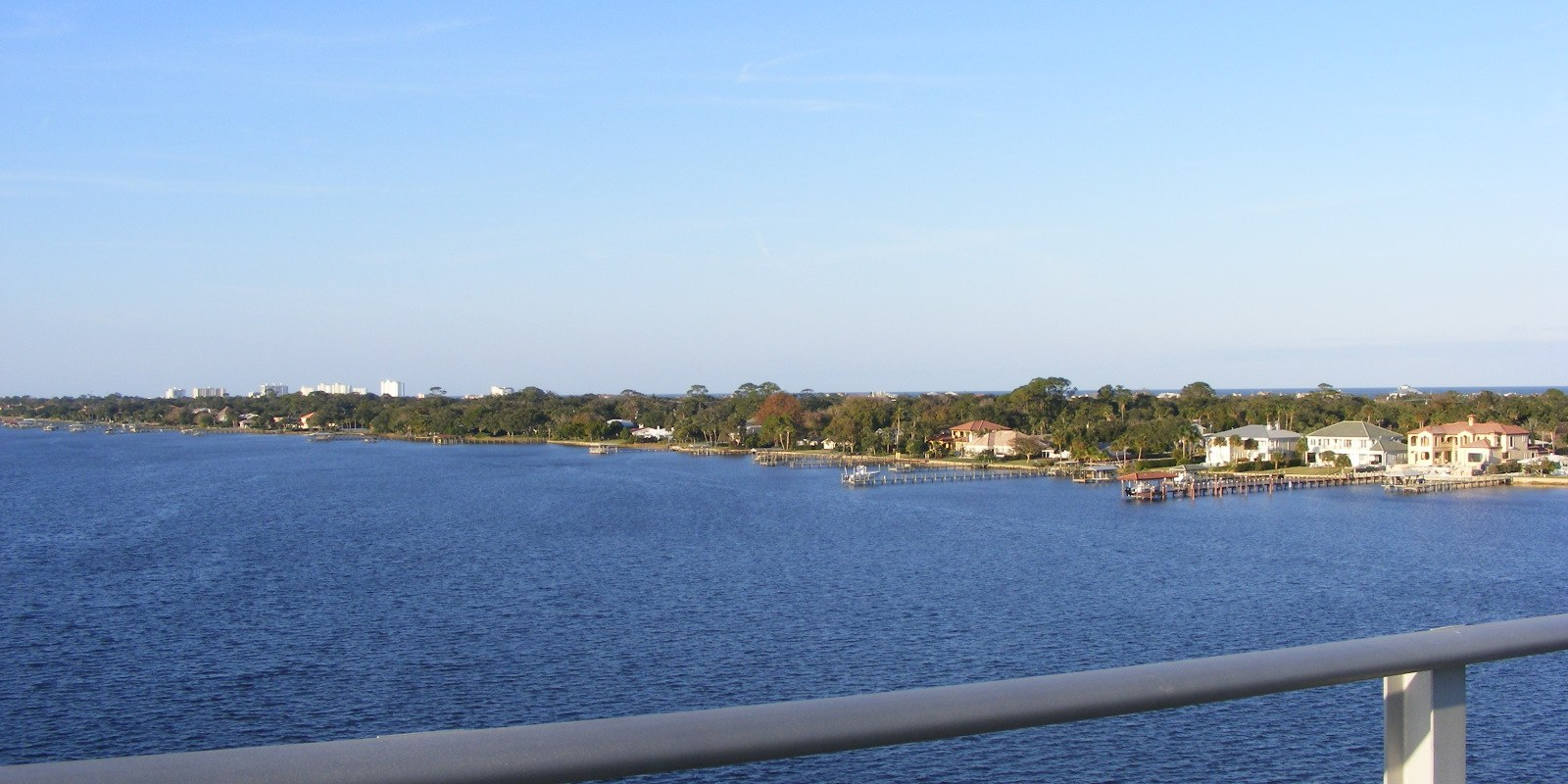 Skyline of Ormond-By-The-Sea, Volusia County, Florida, as seen from the top of the Granada Bridge in Ormond Beach, Florida. (Cropped image)